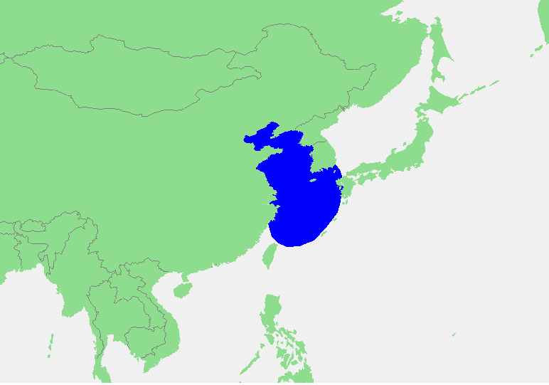 East Chinese Sea